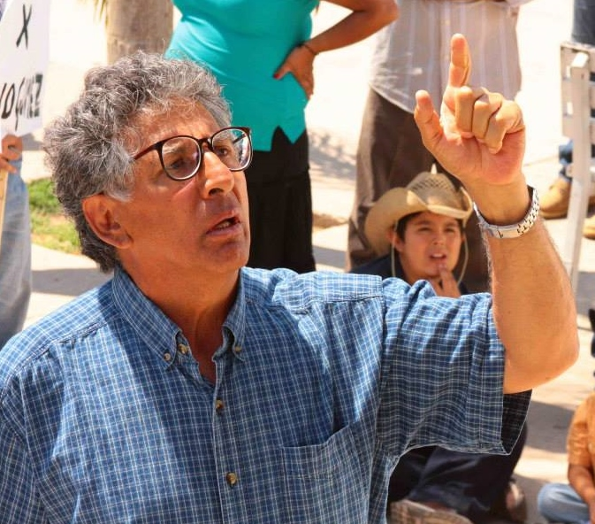 José Luis Urquieta directing "Las Armas"